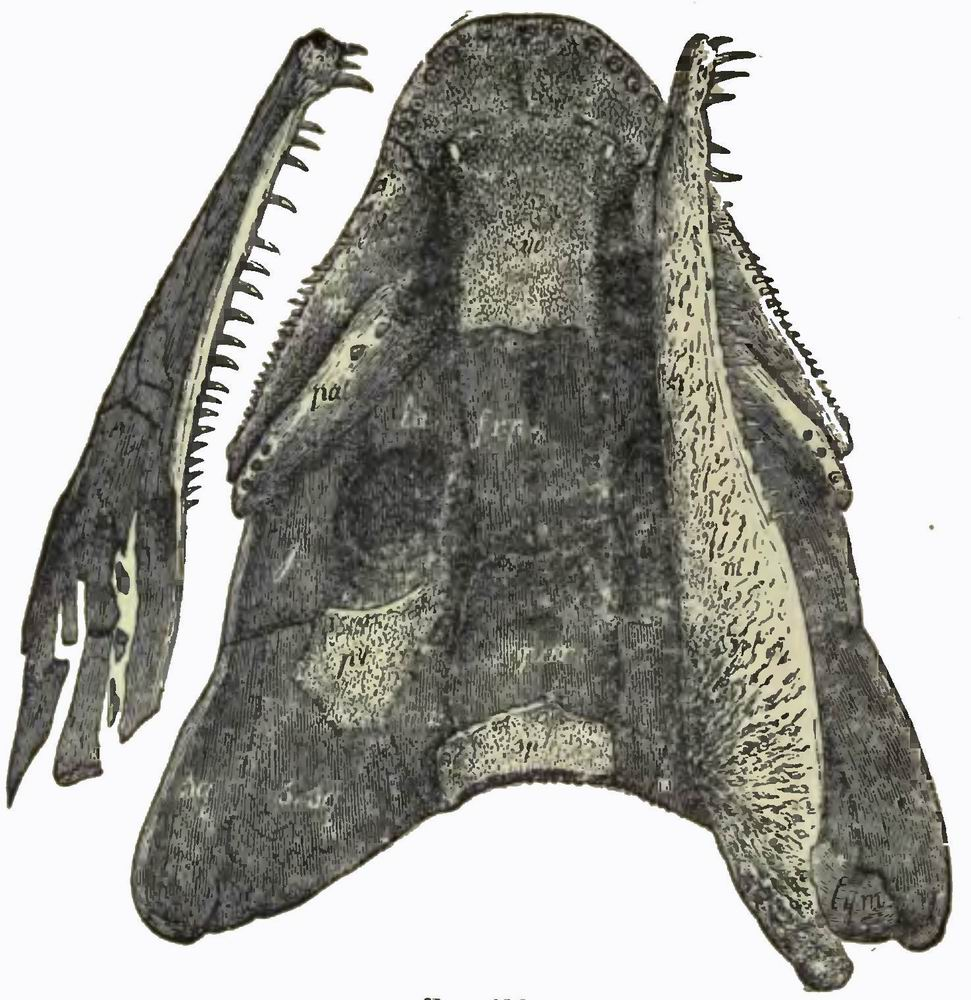 Skull of Sclerocephalus (synonym Actinodon)